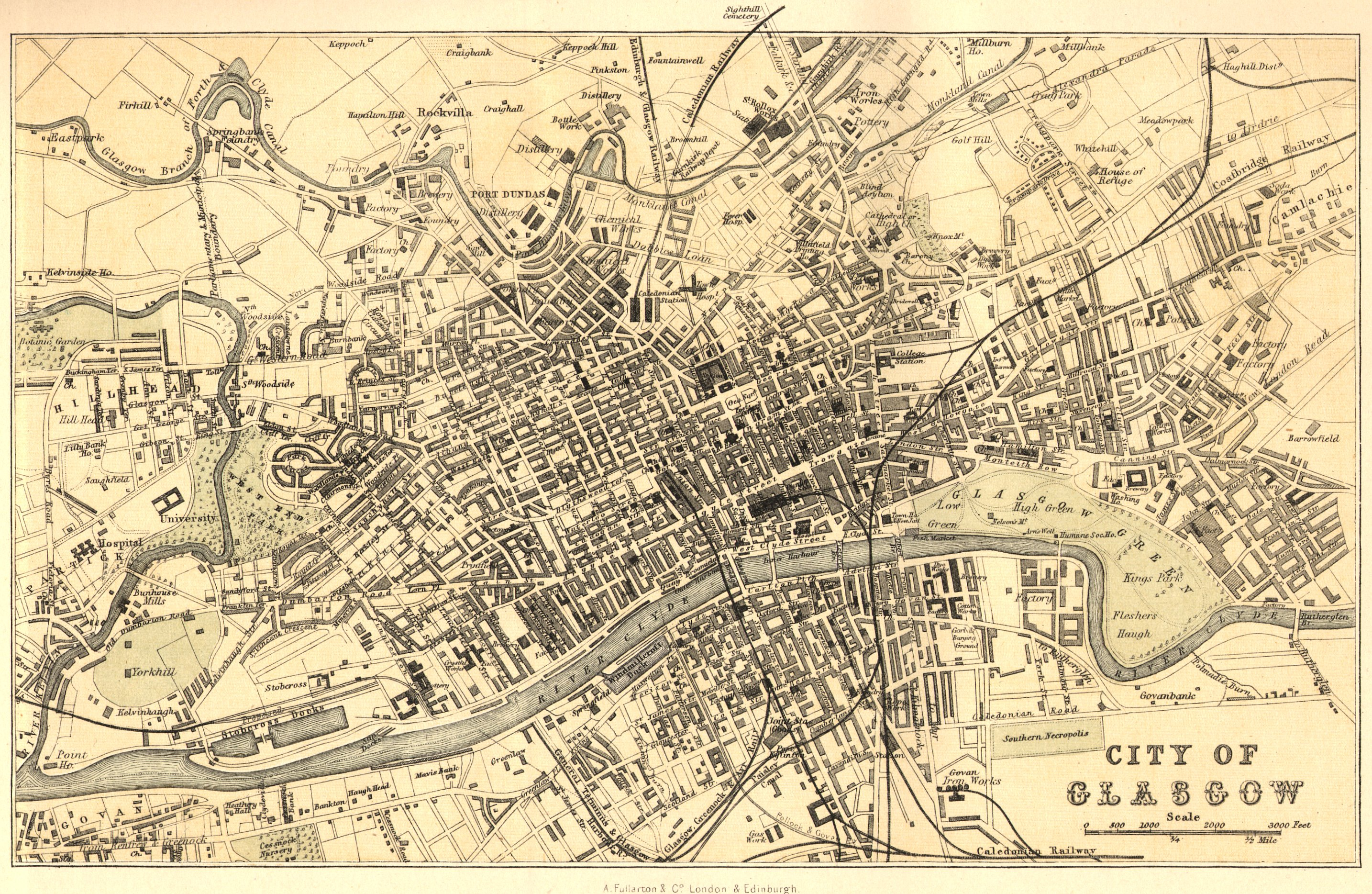 Glasgow map from The Illustrated Globe Encyclopaedia of Universal Information